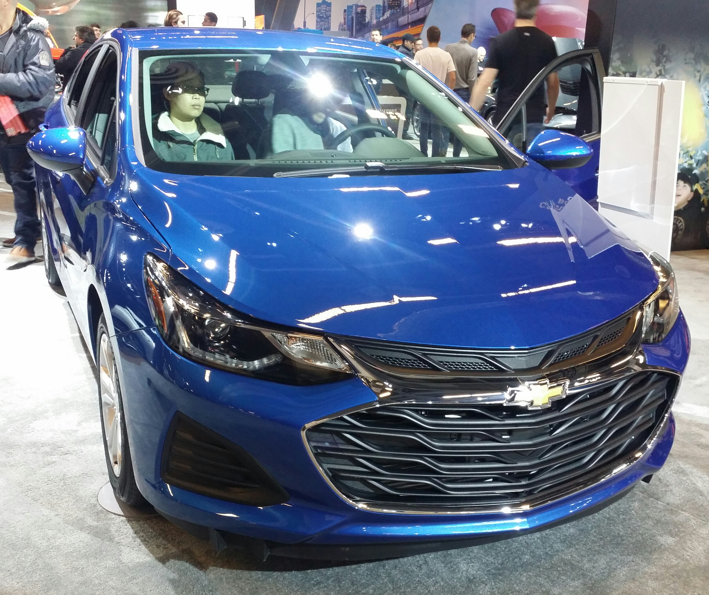 2019 Chevrolet Cruze photographed in Montréal , Québec , Canada at the 2019 Montréal International Auto Show.